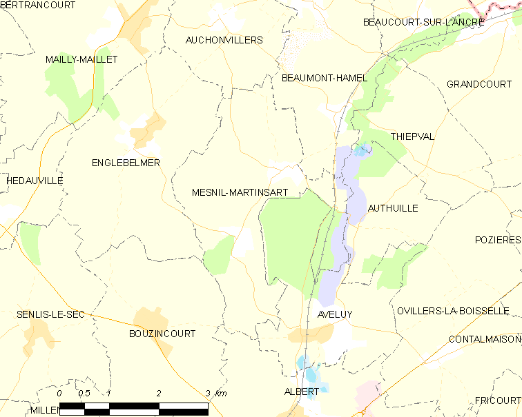 Map of French municipality Mesnil-Martinsart